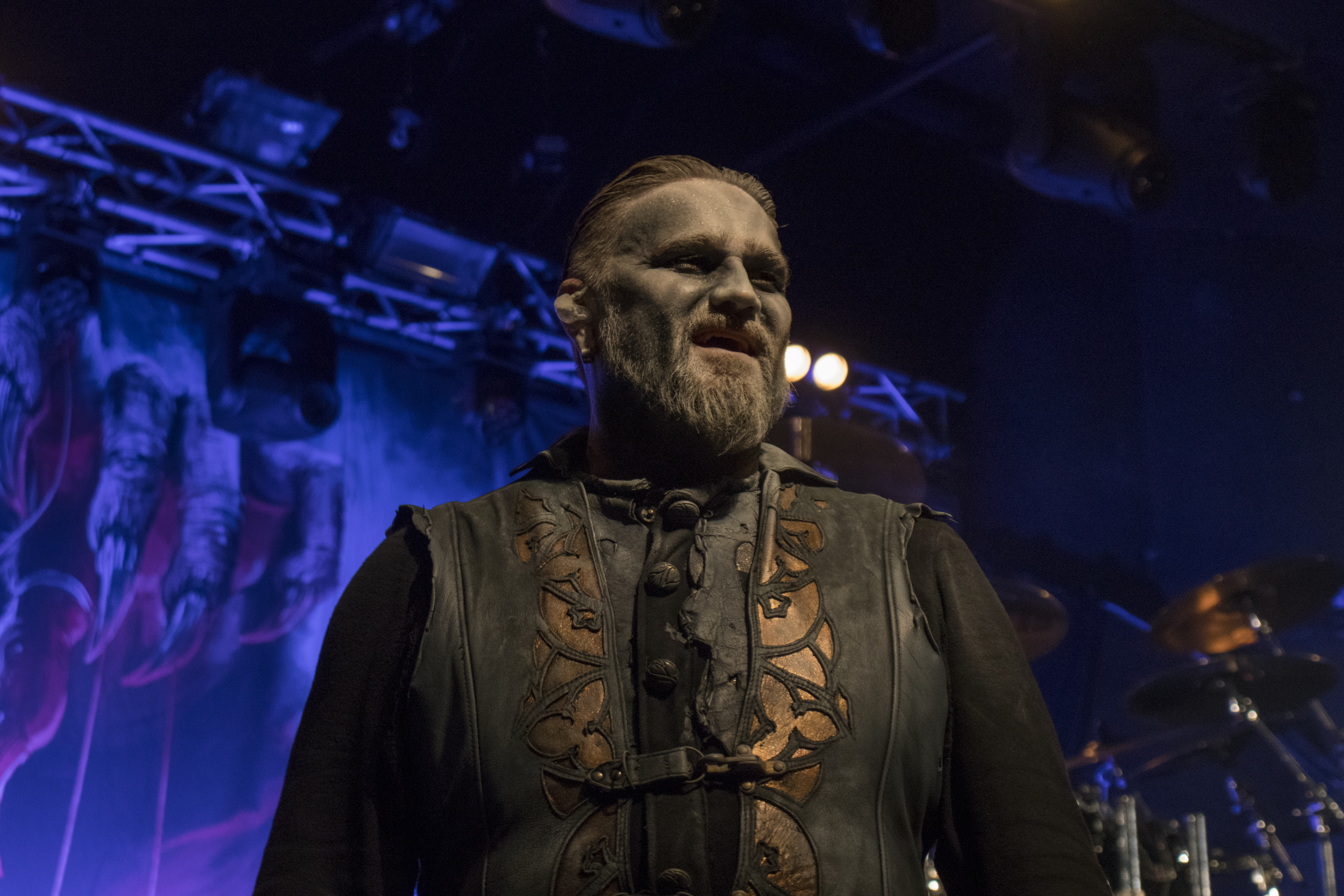 Powerwolf in The Circus, Helsinki (Finland) in November 2019 during the Sacrament of sin tour